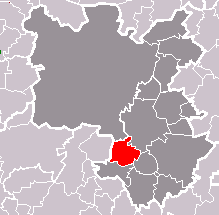 Location of Losiná municipality within Plzeň-City District.